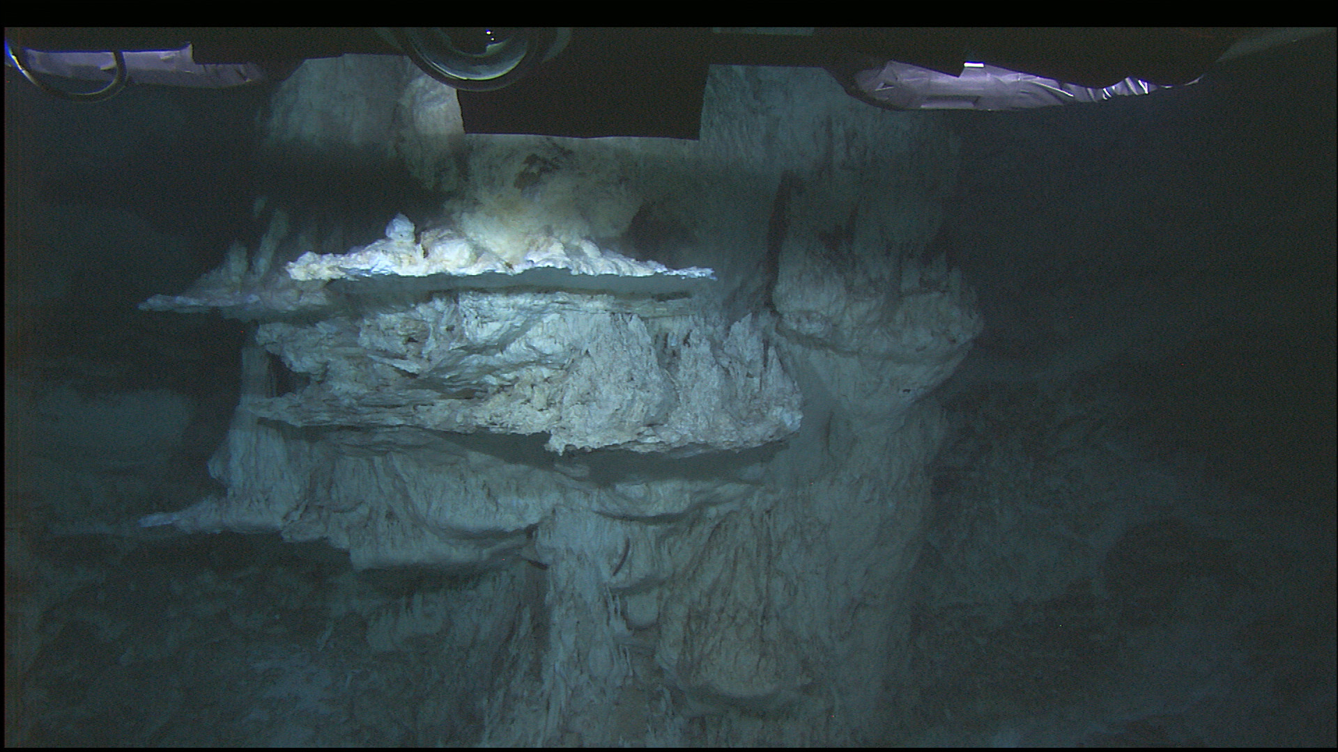 A carbonaceous formation at Lost city hydrothermal field taken in the Okeanos explorer expedition.